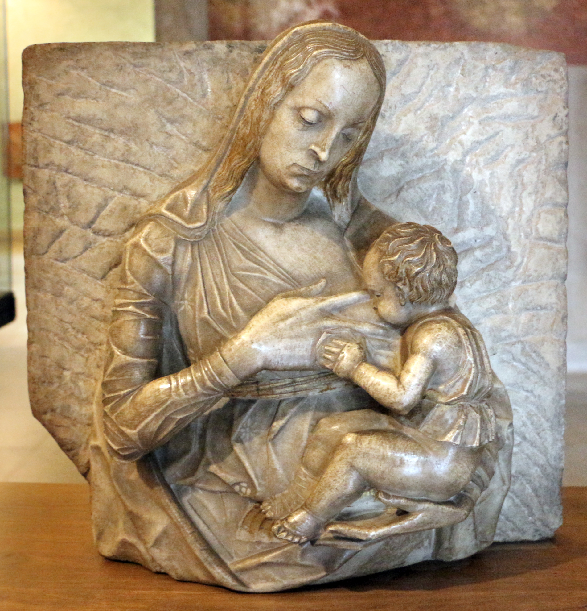 Museo d'arte antica (Milan) - 15th-century sculptures